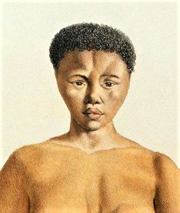 Sawtche, named Sarah "Saartjie" Baartman in Europe (ca.1790 - 1815), called the Hottentot Venus, captured in South Africa, exhibited in Europe as a freak show attraction, forced into prostitution, studied as a specimen of "Woman of race Bôchismann" in 1815 by Étienne Geoffroy Saint-Hilaire and Georges Cuvier, which deduced theories on the inferiority of some human races. These images are taken from Volume II of the "Illustrations of the Natural History of Mammals." They are found between the representations of a Corsican mouflon (female), and a langur (male)...